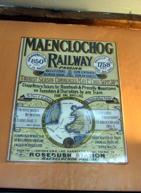 Maenclochog Railway poster The Old Post Office restaurant has a good selection of local guides and memorabilia including this poster, dating perhaps from the 1920's, advising that 'everyone who has not already done so should avail himself of the magnificent panorama provided by nature' by visiting Rosebush by rail. From Prescelly Top, a view of three countries was promised: the land of the leek, the land of the shamrock and the land of the rose!